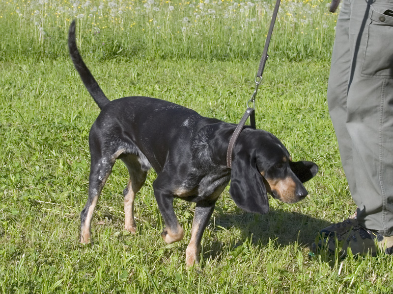 This dog is a Hound from Switzerland: Luzerner Laufhund